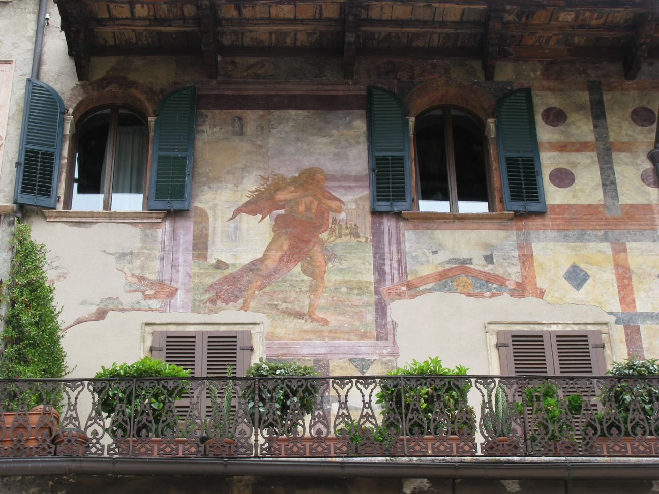 Case Mazzanti (fresco)